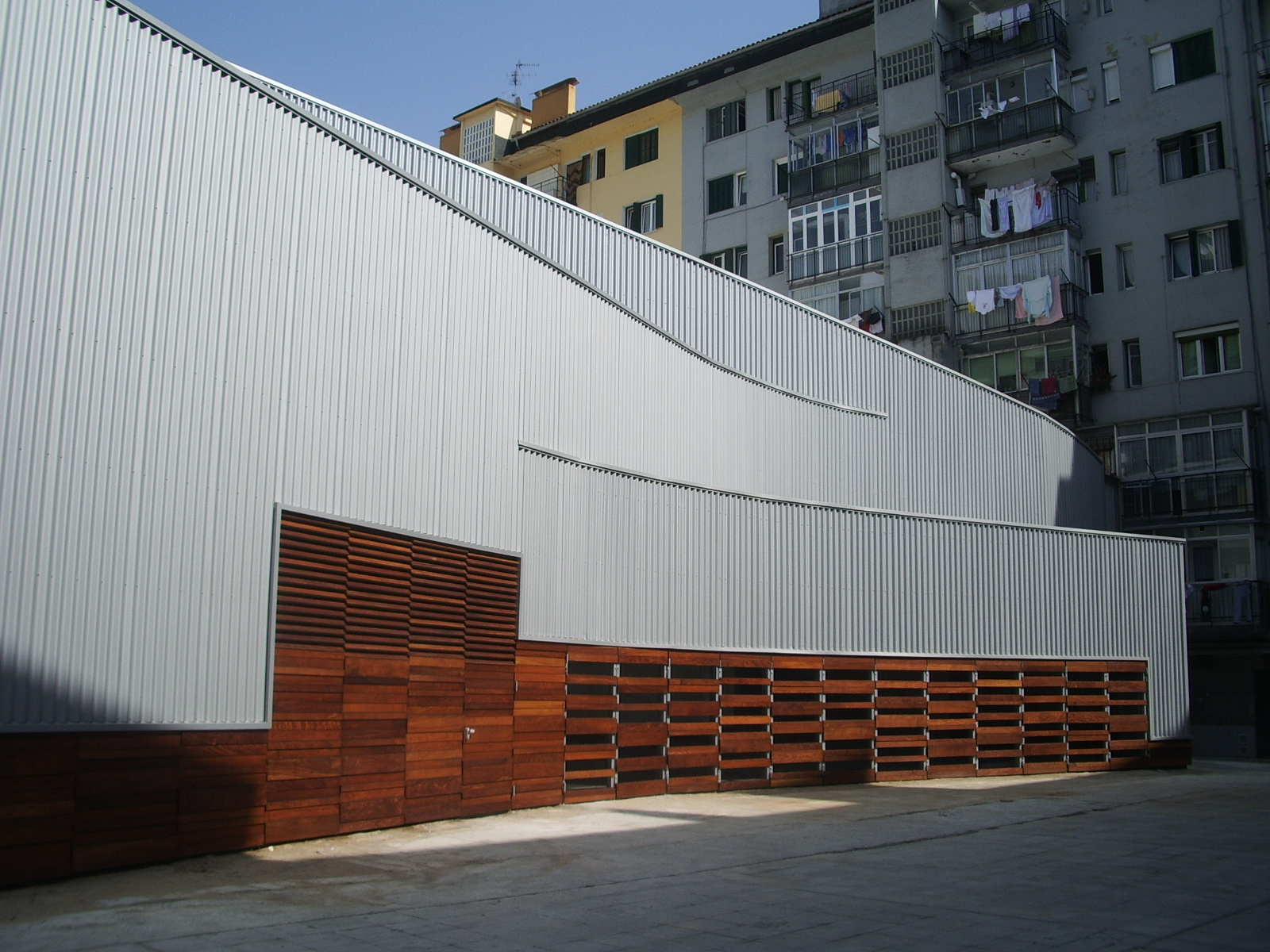 Leidor cinema back facade, Tolosa, Guipuscoa, Basque Country, Spain